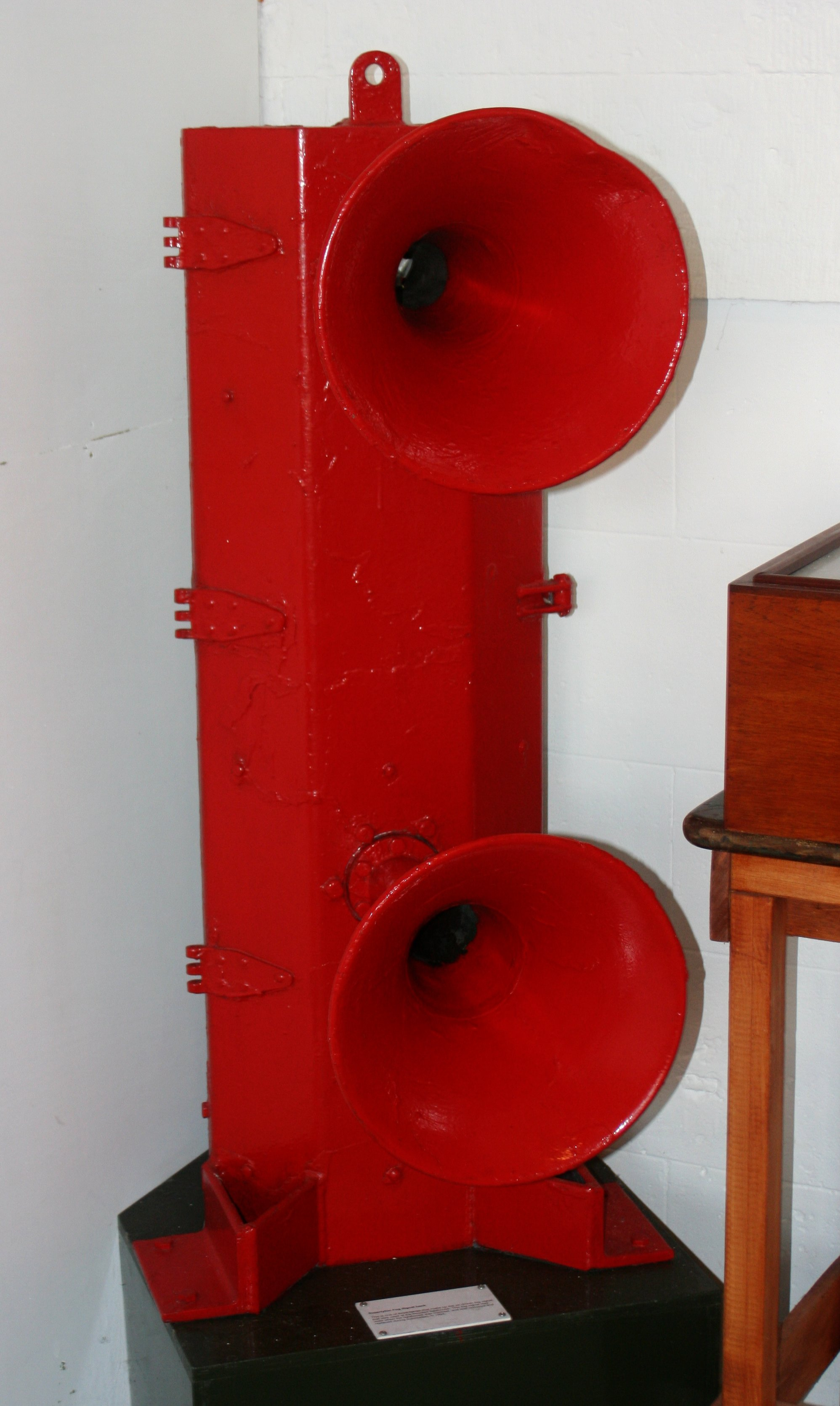 SuperTyfon fog signal bank, from the Needles lighthouse. This signal bank was removed in 1994. Displayed at Hurst Castle.